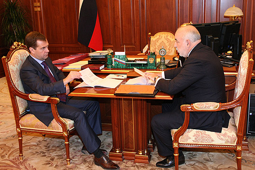 THE KREMLIN, MOSCOW. With Viktor Vekselberg, member of TNK-BP’s Board of Directors and chairman of the Supervisory Committee of the Renova Group.